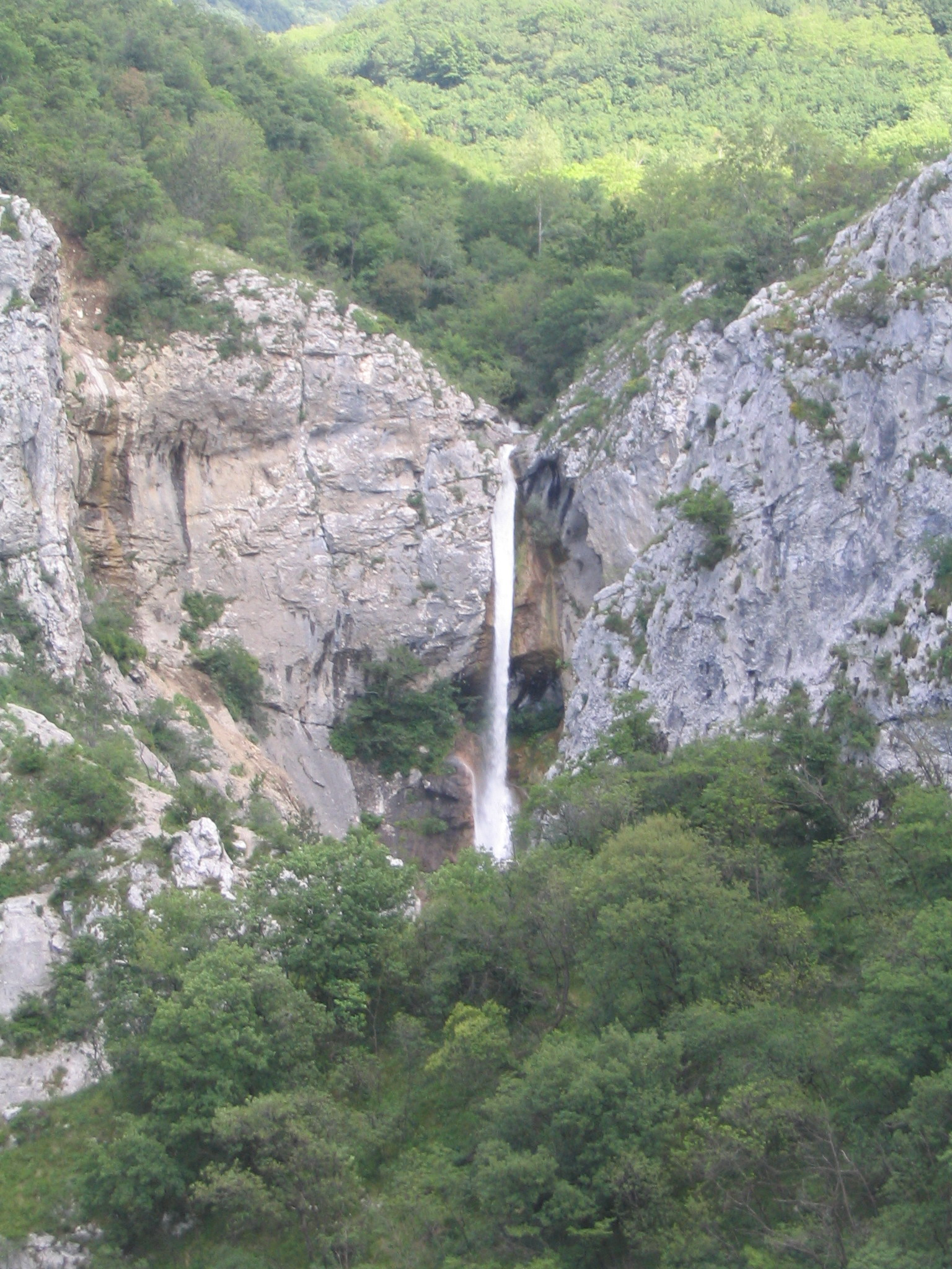 Rosandra waterfall